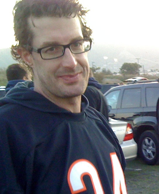 Scot Armstrong